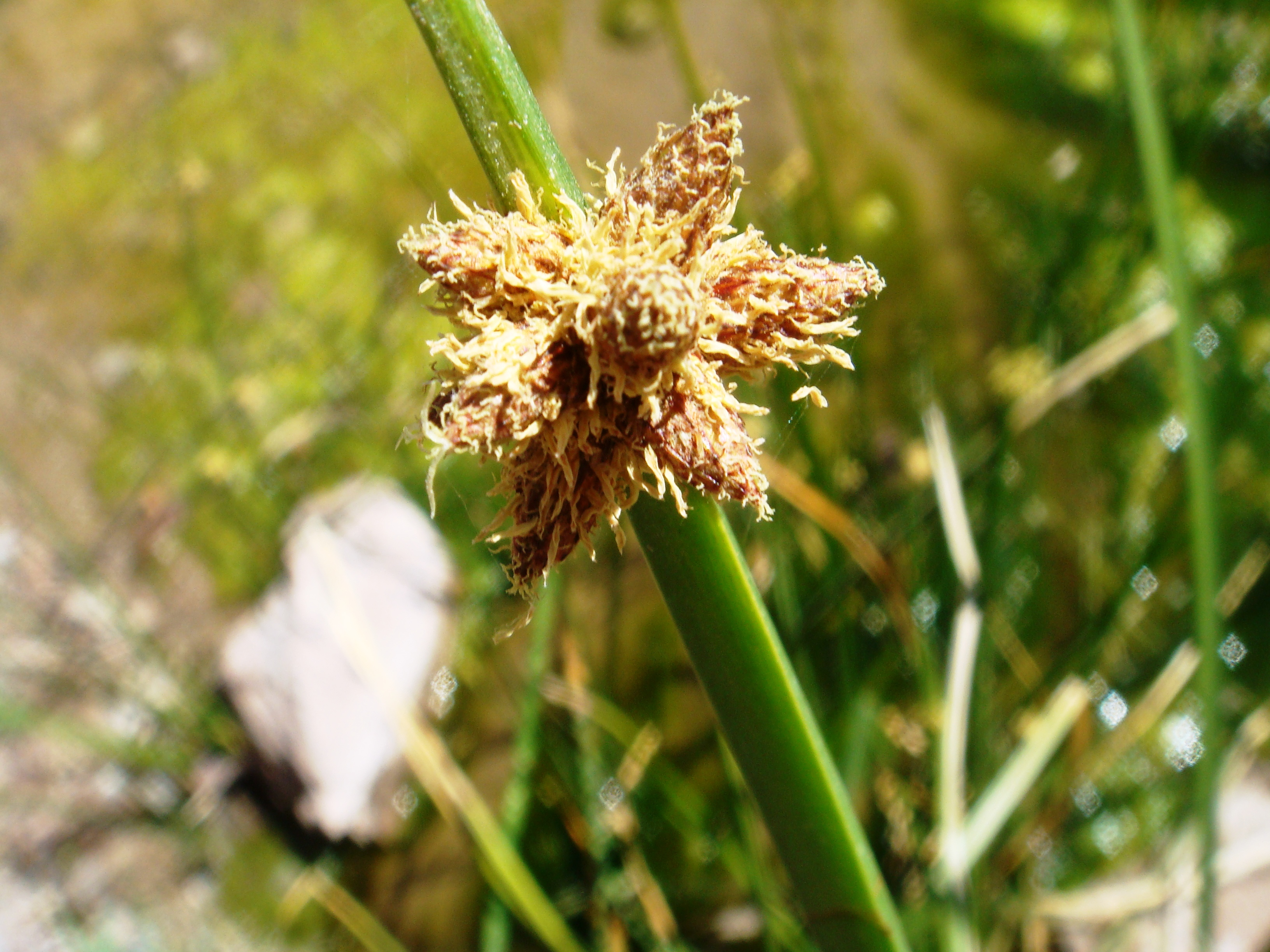 Cyperus odoratus, Arizona State University, Tempe, Arizona (Arboretum Park)